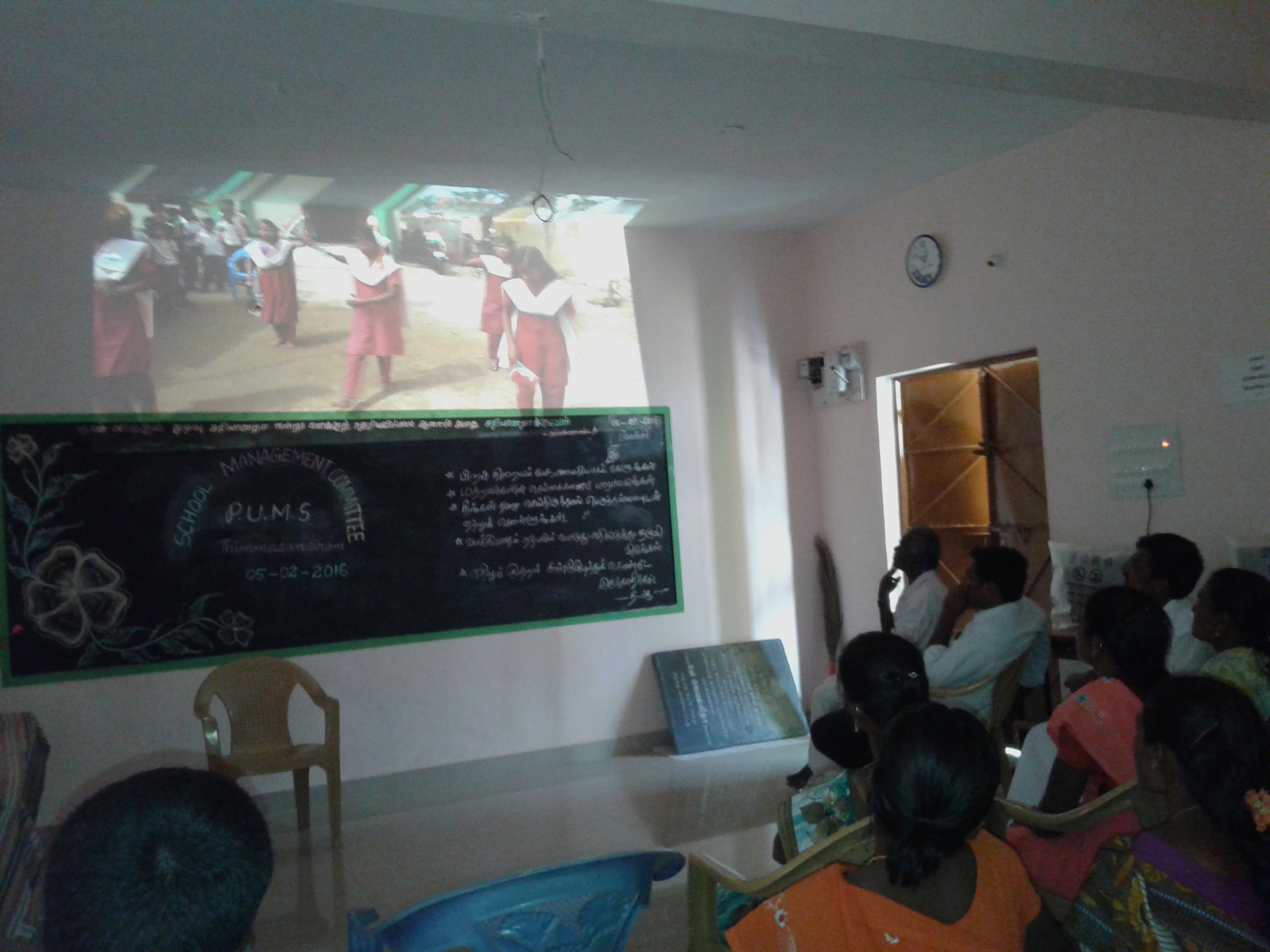 கிராமக்கல்விக் குழு